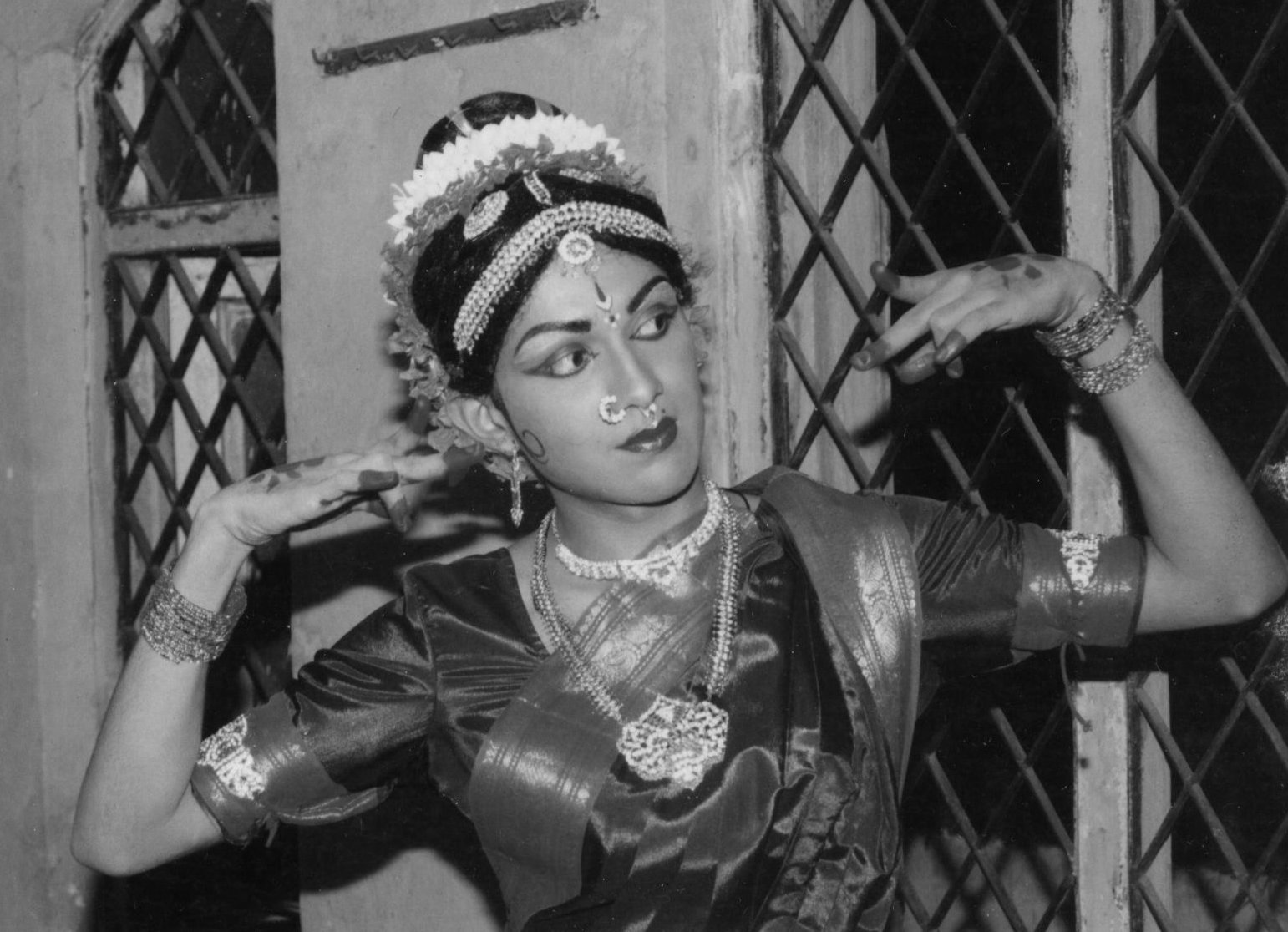 kuchipudi-nayika in lathangi posture Artist : Madhusai Vishwakarma